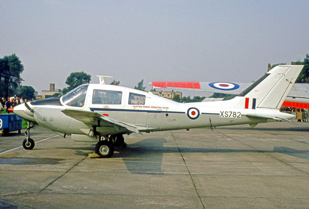 Beagle B.206 Bassett CC.1 XS782 of the Royal Air Force at RAF Coltishall in 1969